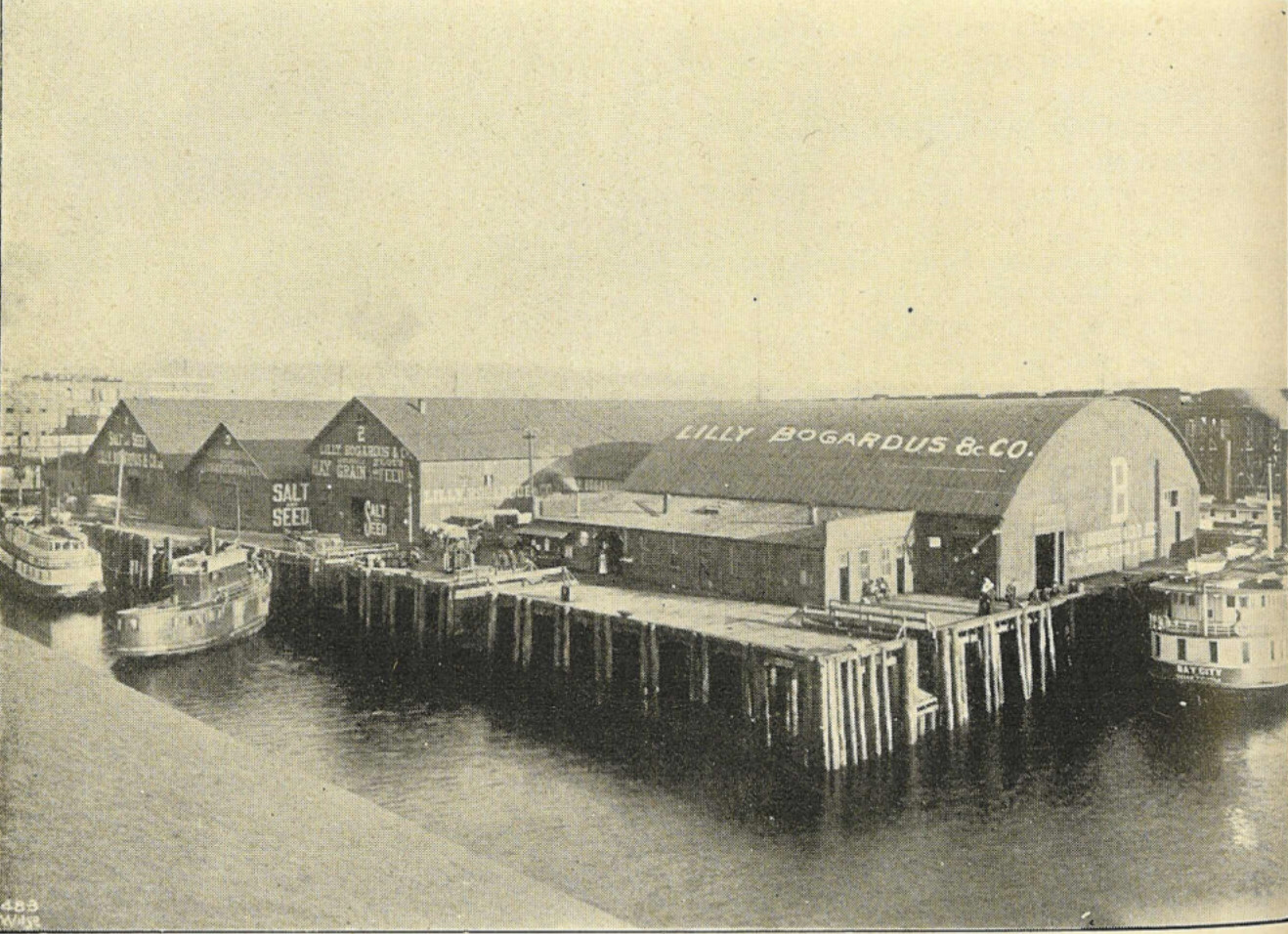 "Warehouses of Lilly, Bogardus & Co." from brochure Seattle and the Orient (1900). This was on Oregon Improvement Company Pier B between Jackson and Main Streets. That pier was torn down and replaced no later than 1903; Lilly Bogardus was also a tenant on the new pier. Lilly, Bogardus was probably best known as a seed company, but also milled flour. King Street Coal Wharf in background.